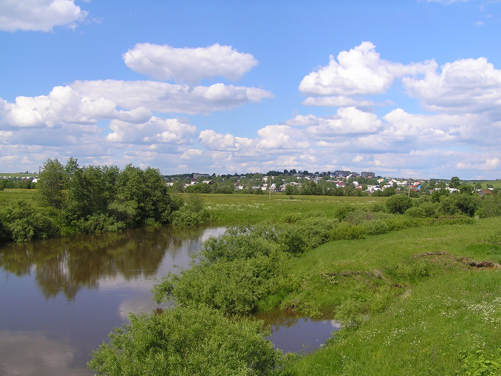 Vizinga